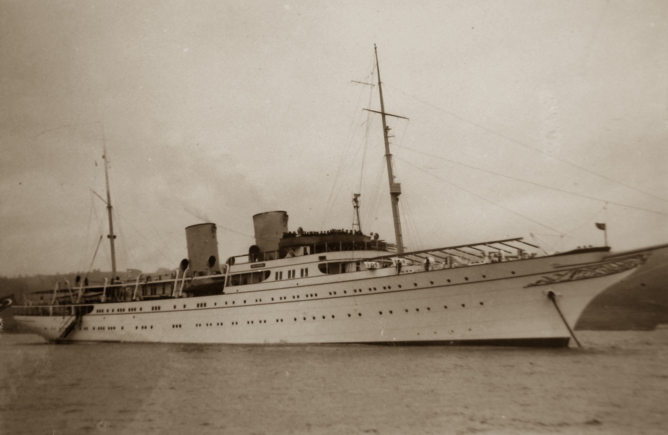 Güneş Dil (Savarona), La Escuela Naval Militar de Oficiales (ENM) at Marín, 1953